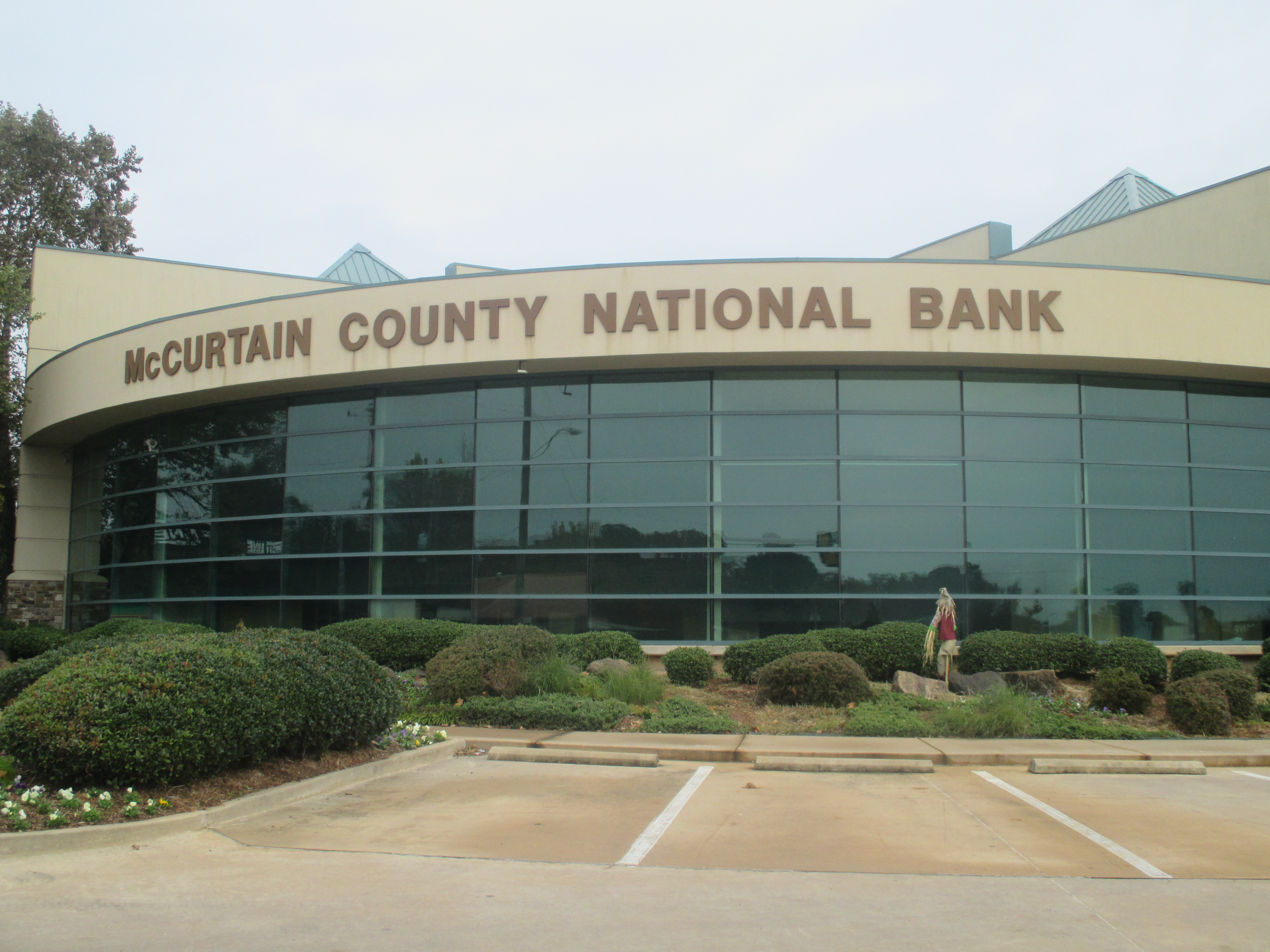 I took photo of McCurtain County National Bank in Idabel, OK, with Canon camera.